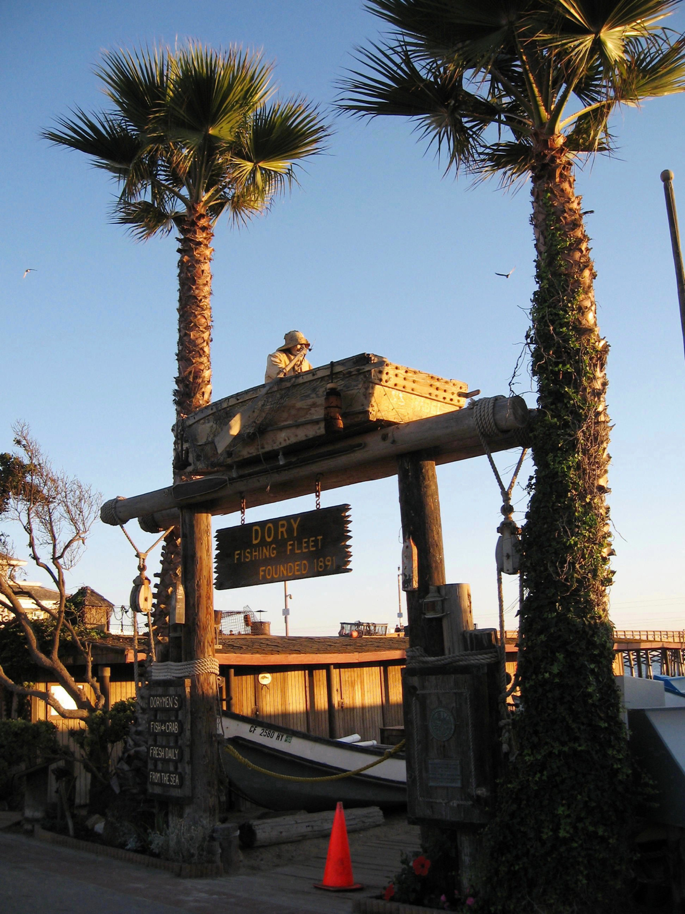 The Dory Fishing Fleet at the base of the Newport Pier in Newport Beach, California.